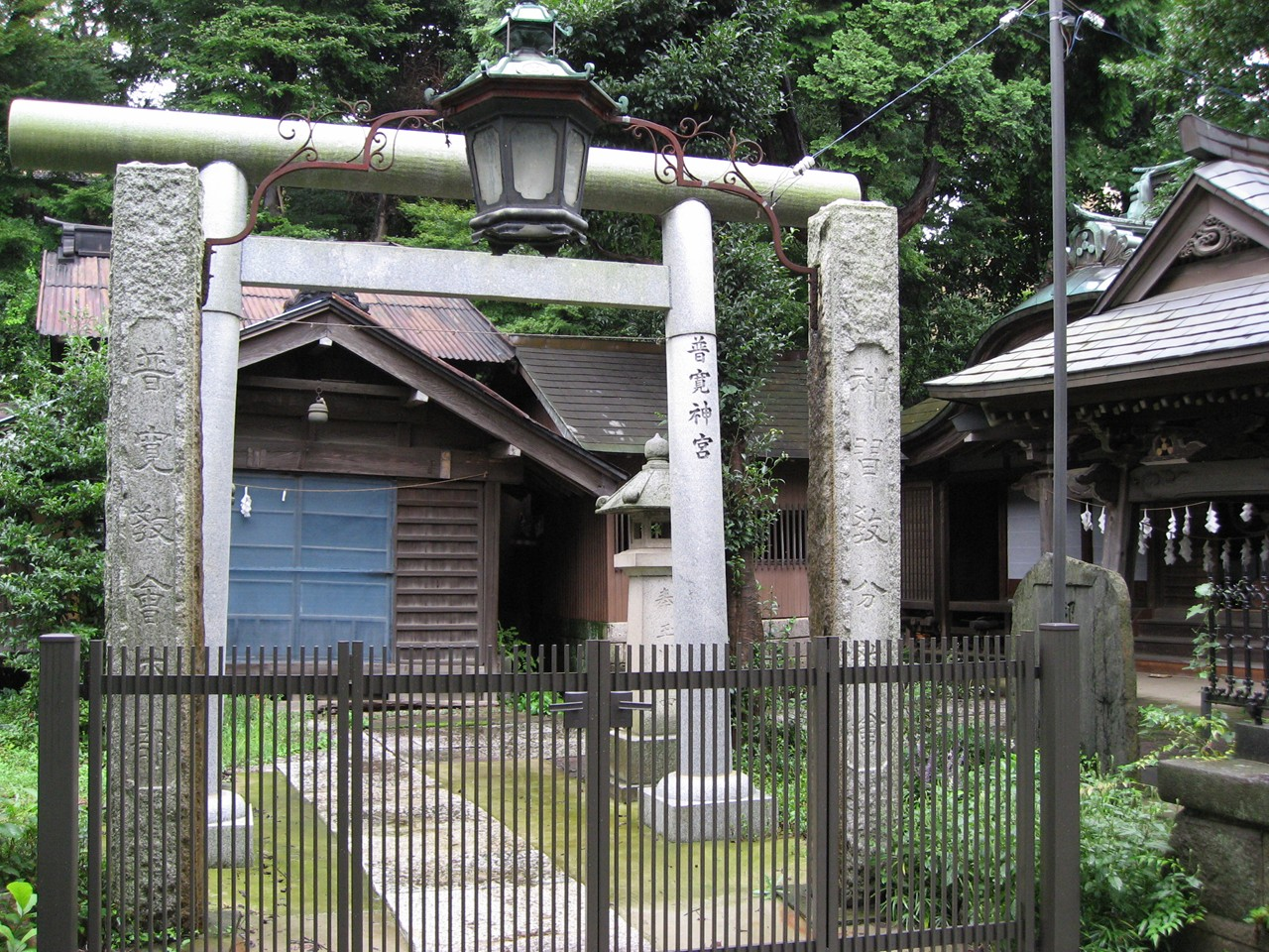 The headquarters of Hukan Kyokai in Momura, Inagi-shi, Tokyo, Japan. Hukan Kyokai is a folk religion that developed in Meiji Era through early Showa Era (late 19th - early 20th century).